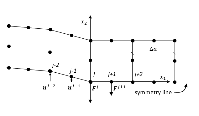 picture of method